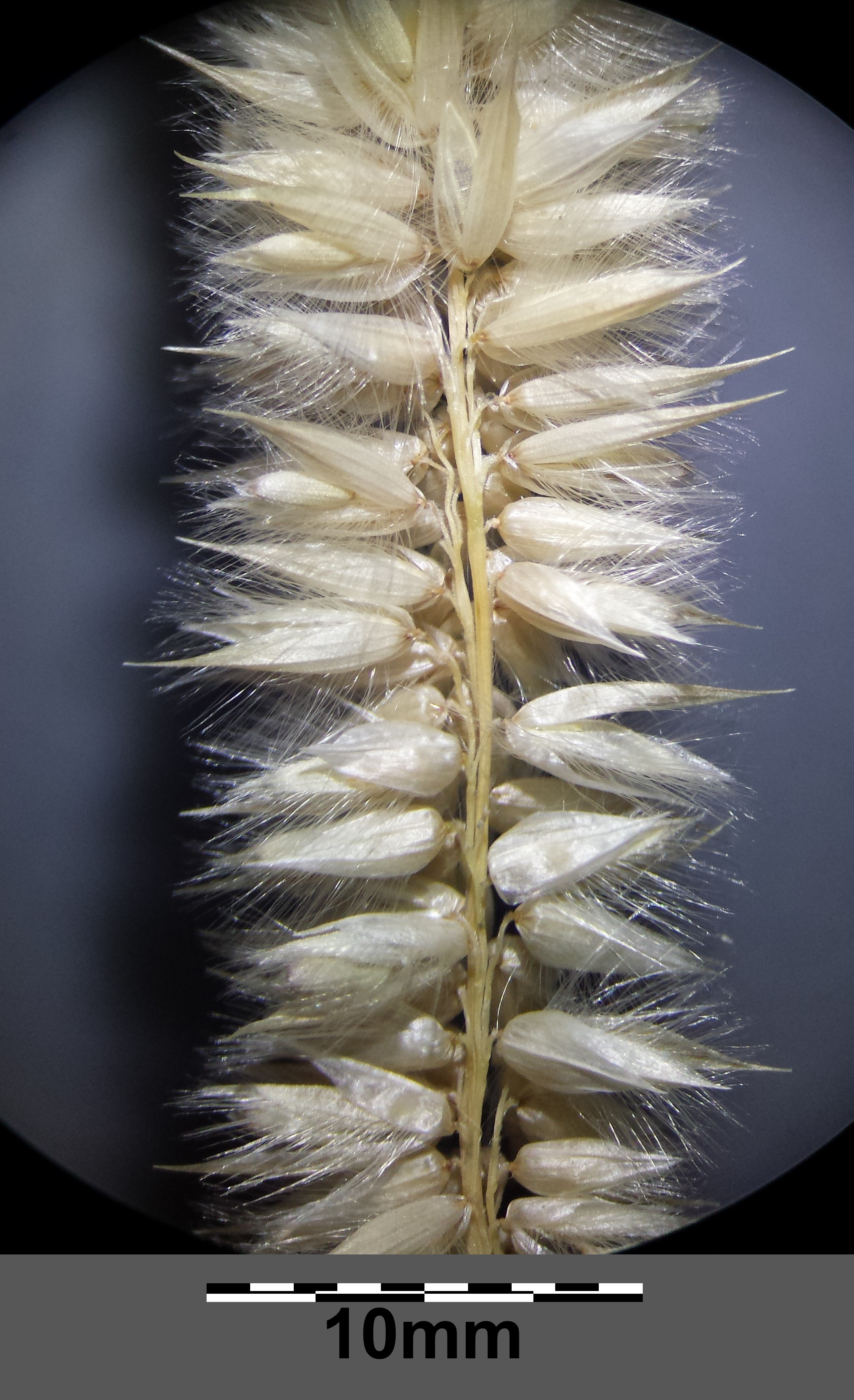 Panicle (detail - front panicles removed) Taxonym: Melica transsilvanica (subsp. transsilvanica) ss Fischer et al. EfÖLS 2008 ISBN 978-3-85474-187-9 Location: Würfelberg near Bergau, district Hollabrunn, Lower Austria - ca. 275 m a.s.l. Habitat: semi-dry grassland